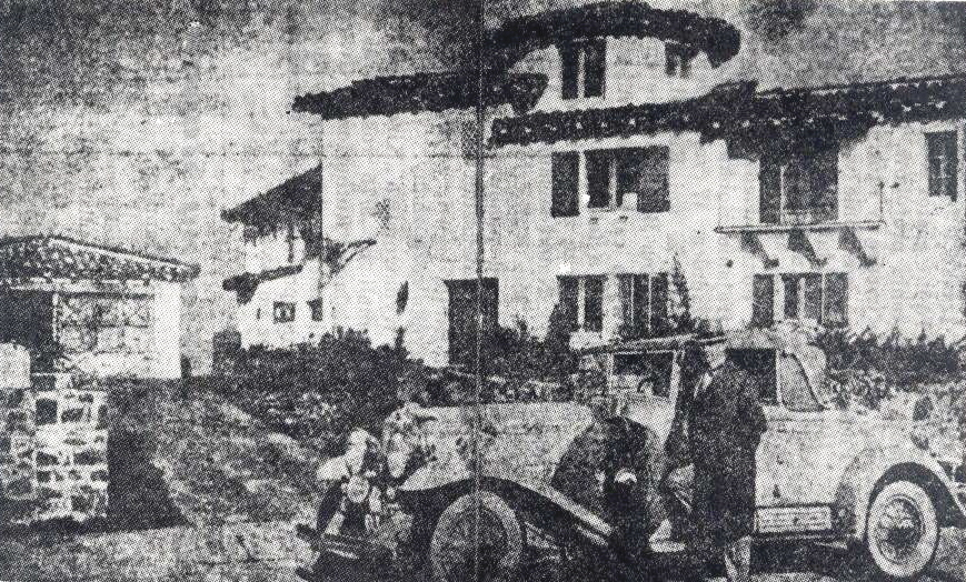 Picture of Judge Joseph F. Rutherford, president of the Watchtower Society (later known as Jehovah's Witnesses) with his yellow 16-cylinder Cadillac coupe in front of "Beth Sarim," the mansion built in expectation of the soon to be resurrected Old Testament Patriarchs for their residence. In the interim, Rutherford maintained the home and car and wintered there until his death in 1942.